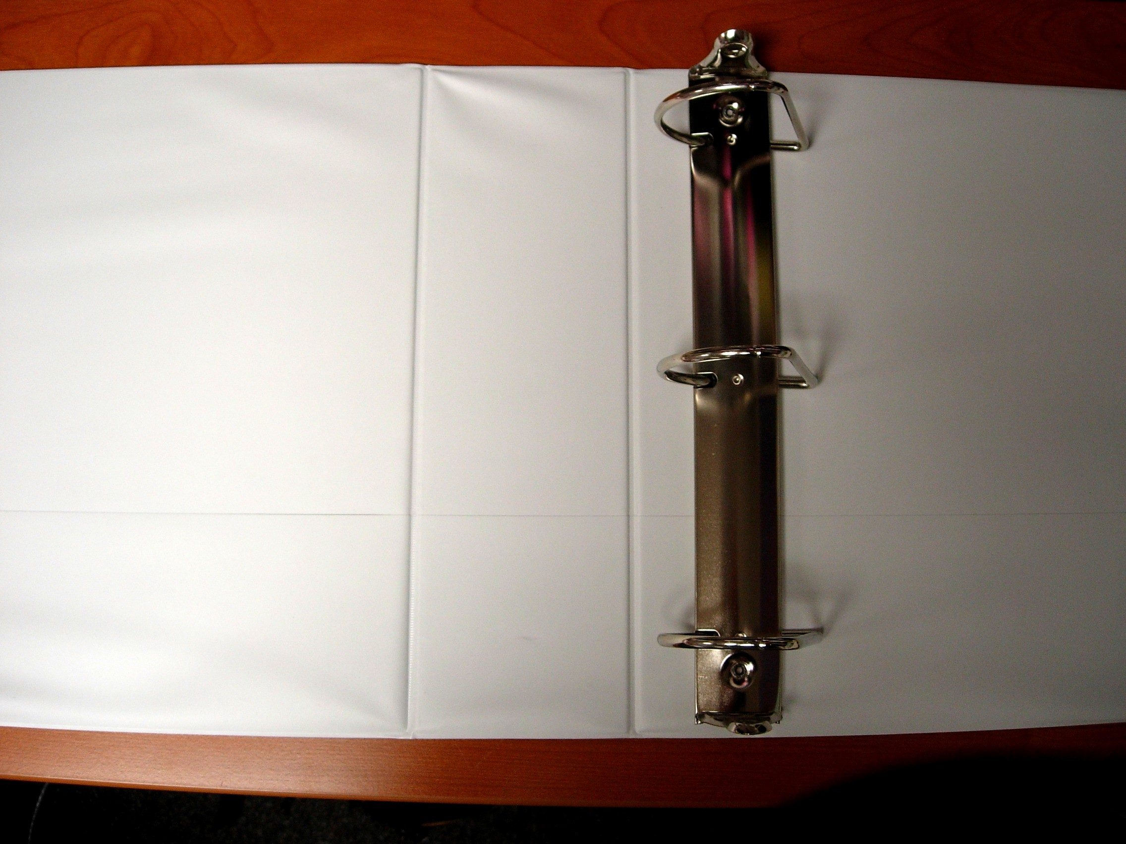 D-ring type 3 ring binder (opened)